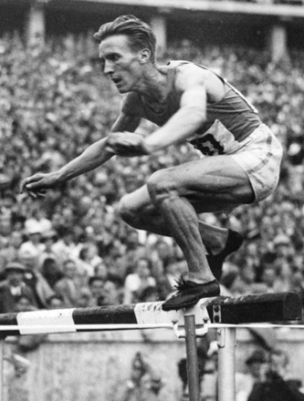 Volmari Iso-Hollo running 3000 m steeplechase at the 1936 Olympics